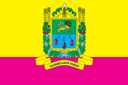 Flag of Valkivskyj district (Ukraine)